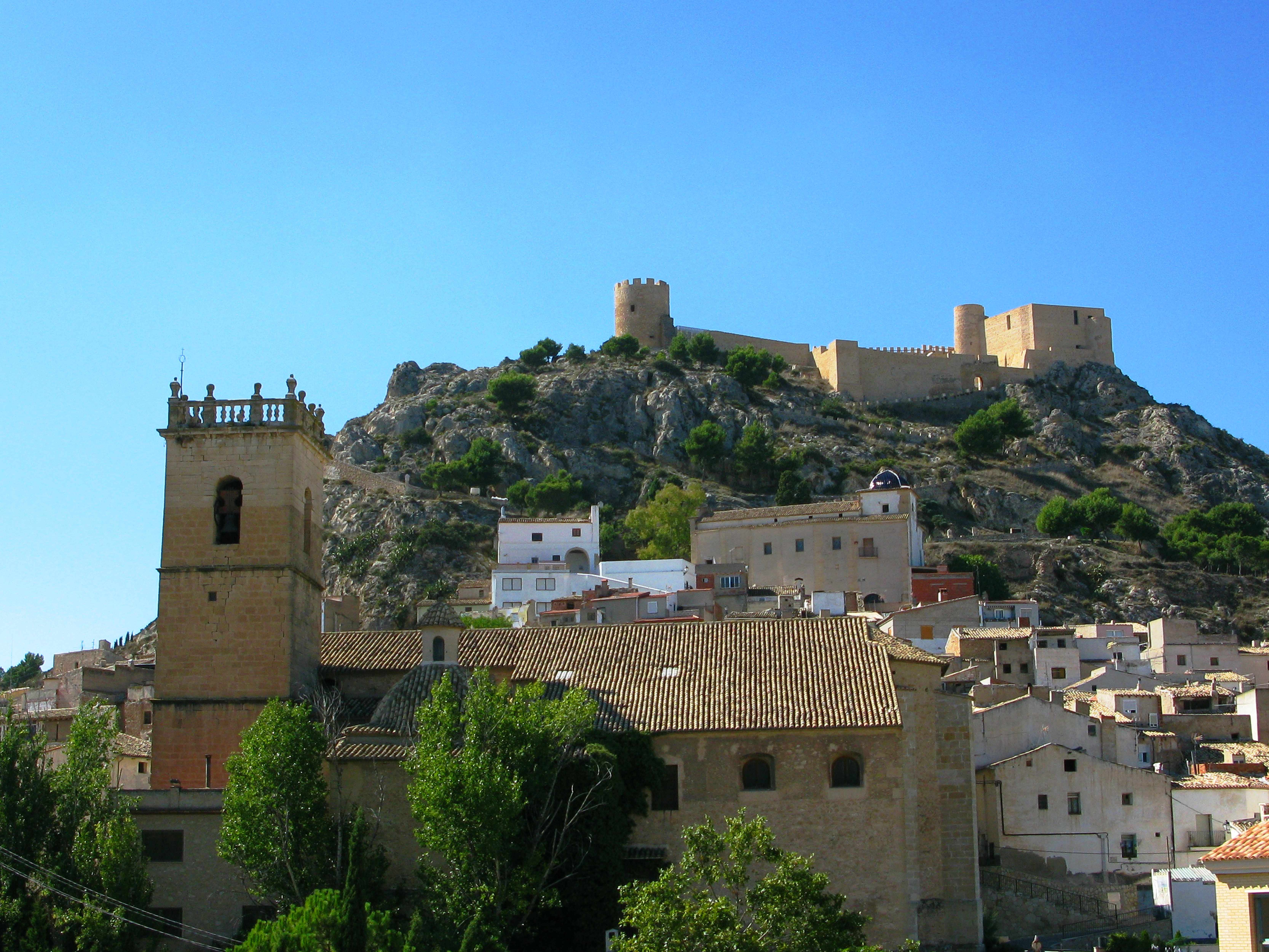 From the bottom up are featured the Church, Ermita & Castle, 3 of the main historic buildings in Castalla, Alicante region